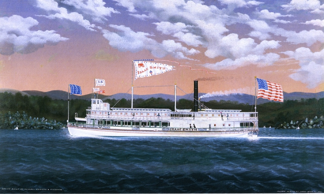 Isaac Smith, Hudson River steamboat built 1861, later taken into service for the Union in the American Civil War. Captured by the Confederacy, at Stono River, SC, and renamed CSS Stono. Oil on canvas by James Bard.